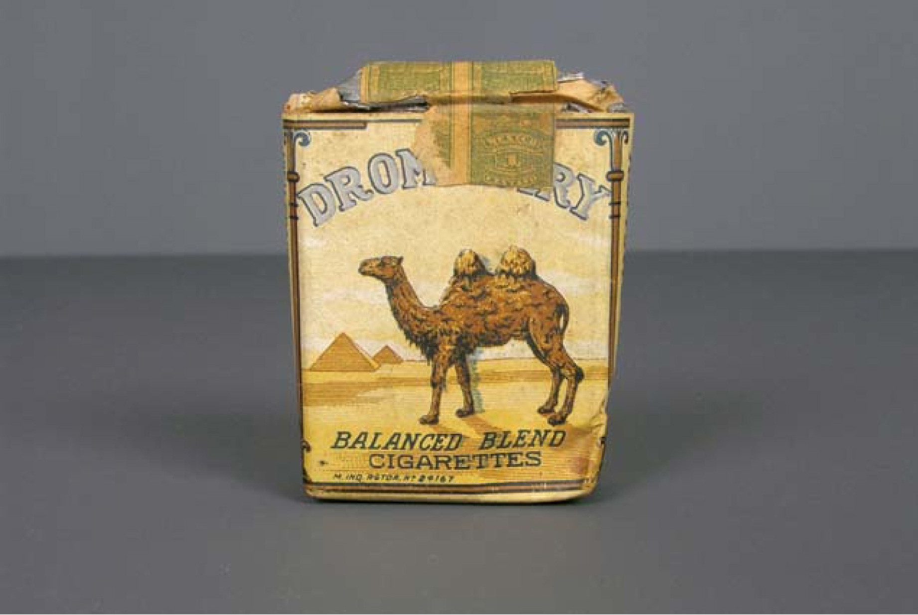 Camel cigarette package from the first half of the 20th century.